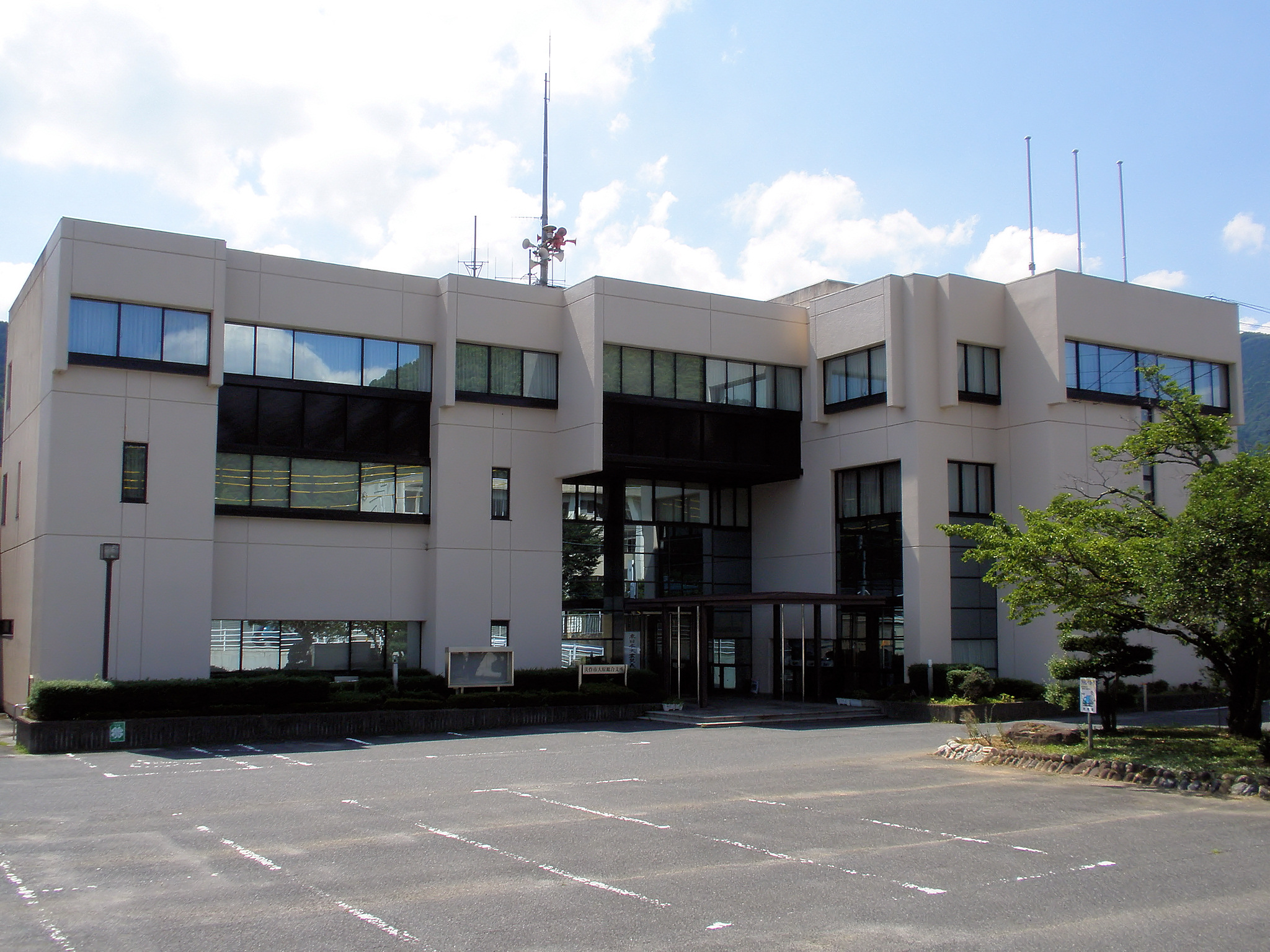 Mimasaka city office Ōhara branch Former Ōhara town office (1982.3 - 2005.3.30)